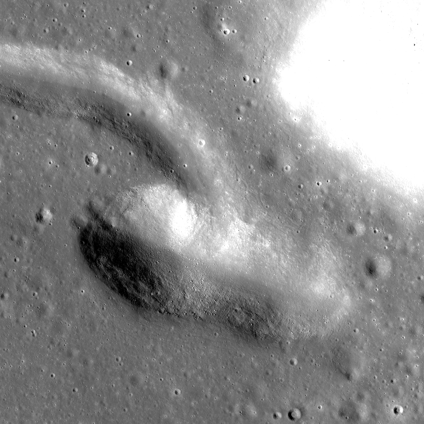 Small (3.7×1.7 km) crater Michael on the Moon, in southeastern Mare Imbrium (a map). Centered at 25.05°N, 0.20°E (according to JMARS). Bright region on the right is a sunlit mountain. Photo by Lunar Reconnaissance Orbiter, made with Narrow Angle Camera 10 October 2009 from altitude 146 km. Sun elevation is 32.9°. Size of the photo is 5.0×5.0 km, north is up.